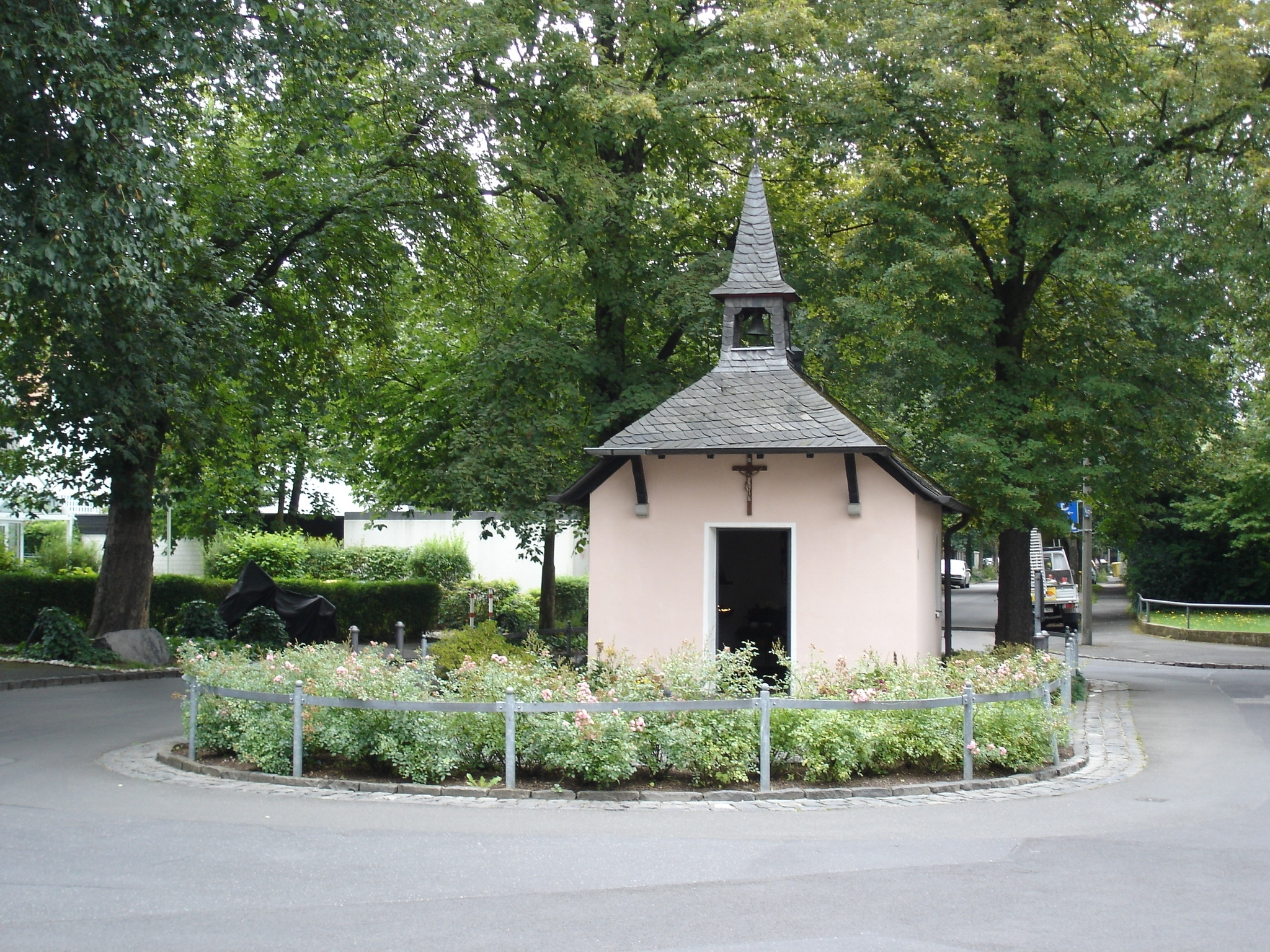 Chapel Marienkapelle in Bonn-Rüngsdorf.